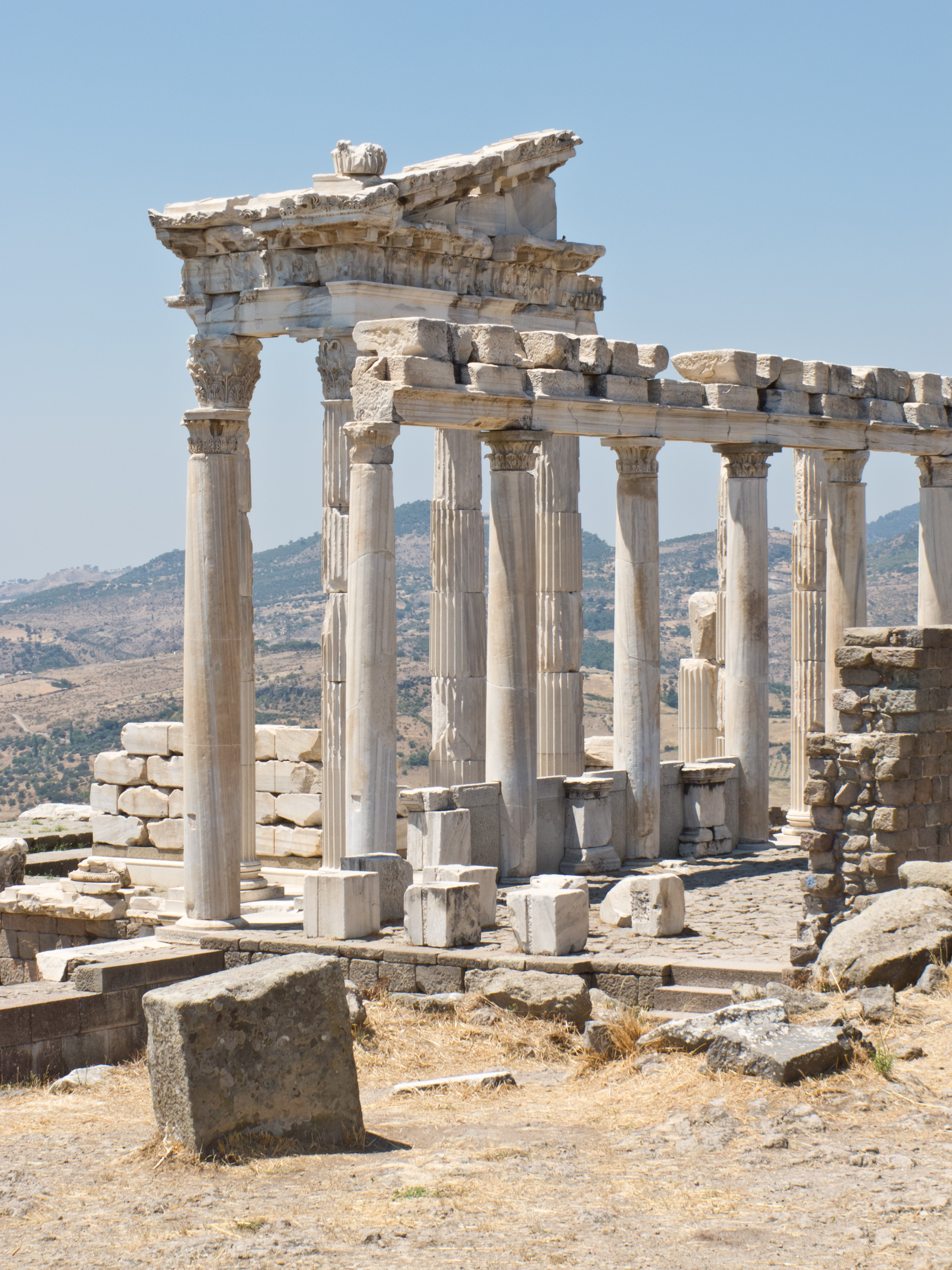 Temple of Trajan at Pergamon, in modern-day Turkey.